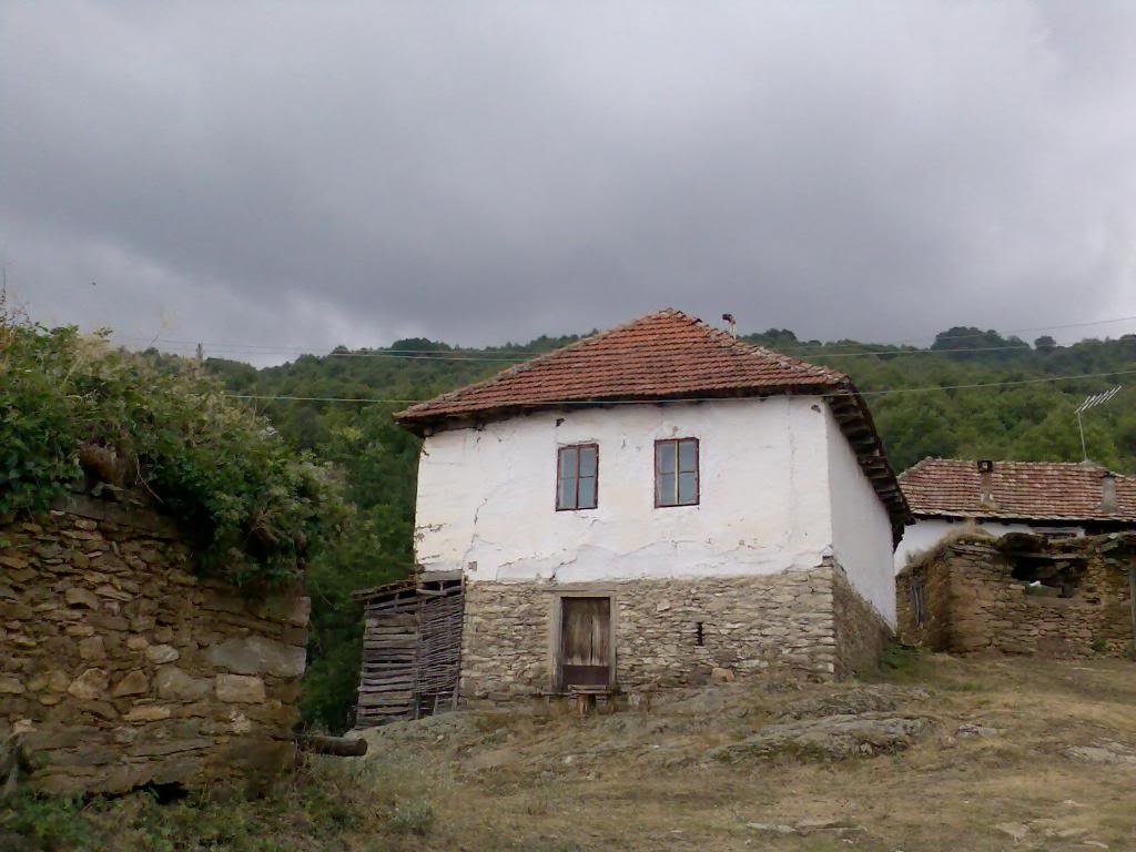 Village of Sushitsa, Poreche region, Republic of Macedonia